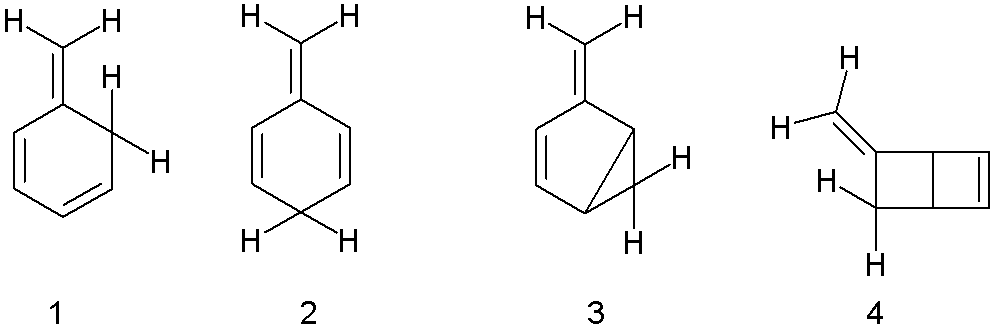 Isotoluenes